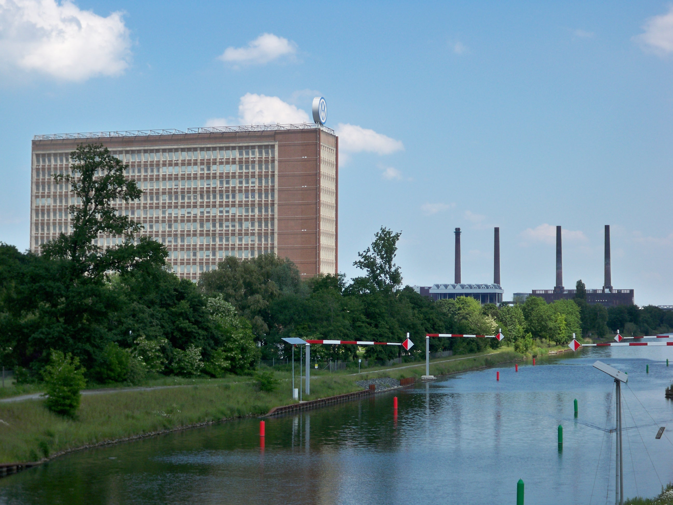 Wolfsburg, Lower Saxony, headquarters of Volkswagen AG and "old" power station with Mittelland Canal